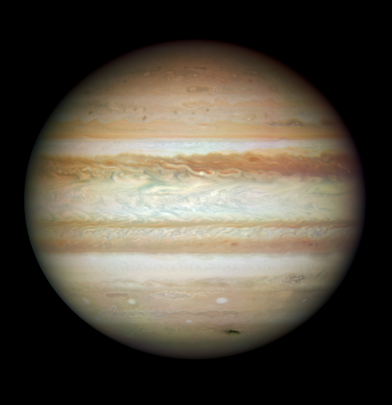 This Hubble picture, taken on 23 July 2009, is the first full-disc, natural-colour image of Jupiter made with Hubble's new camera, the Wide Field Camera 3 (WFC3). It is the sharpest visible-light picture of Jupiter since the New Horizons spacecraft flew by that planet in 2007. Each pixel in this high-resolution image spans about 119 kilometres in Jupiter's atmosphere. Jupiter was more than 600 million kilometres from Earth when the images were taken. The dark smudge at bottom right is debris from a comet or asteroid that plunged into Jupiter's atmosphere and disintegrated. In addition to the fresh impact, the image reveals a spectacular variety of shapes in the swirling atmosphere of Jupiter. The planet is wrapped in bands of yellow, brown and white clouds. These bands are produced by the atmosphere flowing in different directions at various places. When these opposing flows interact, turbulence appears. This colour image is a composite of three separate colour exposures (red, blue and green) made by WFC3. Additional processing was done to compensate for asynchronous imaging in the colour filters and other effects.